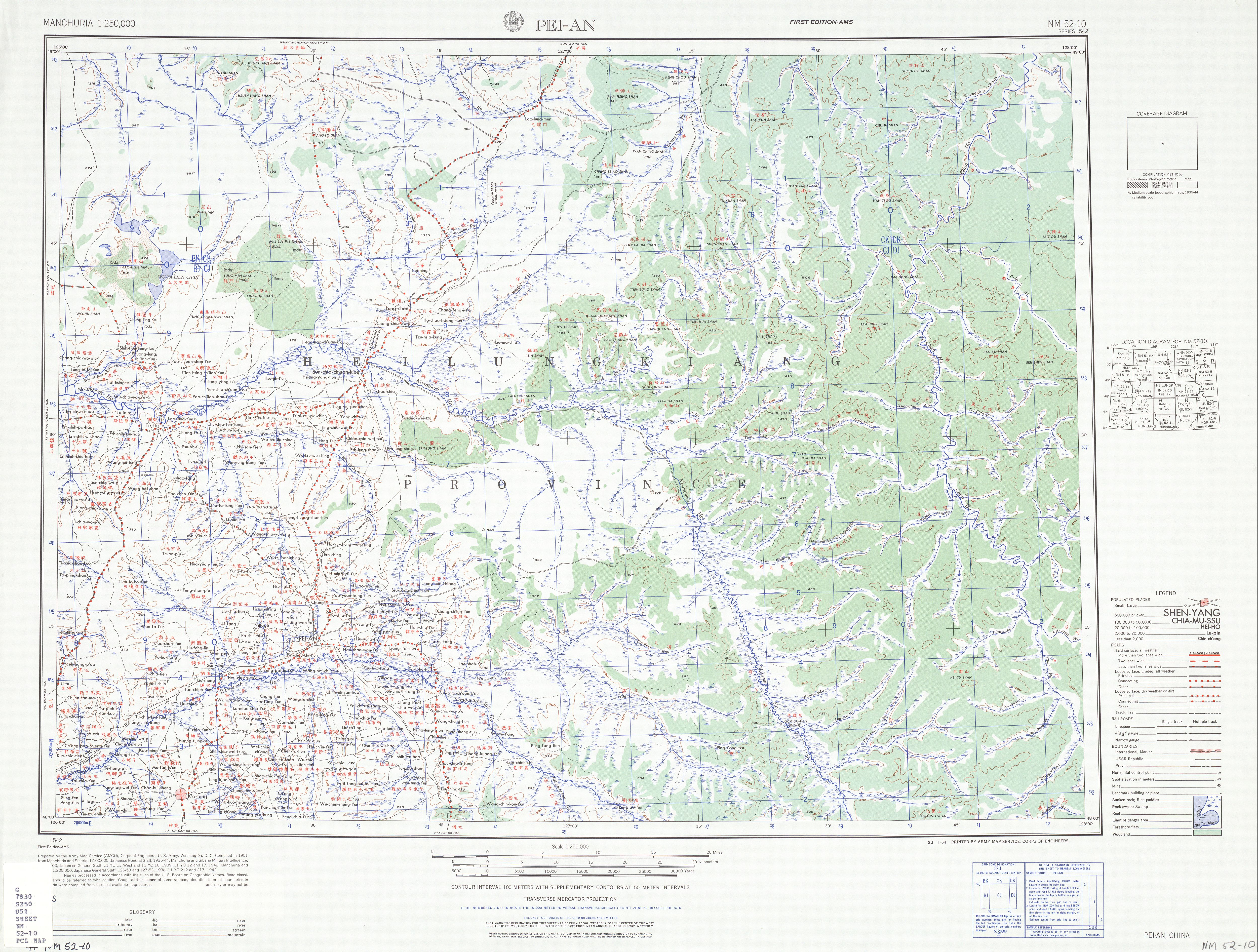 Manchuria AMS Topographic Maps